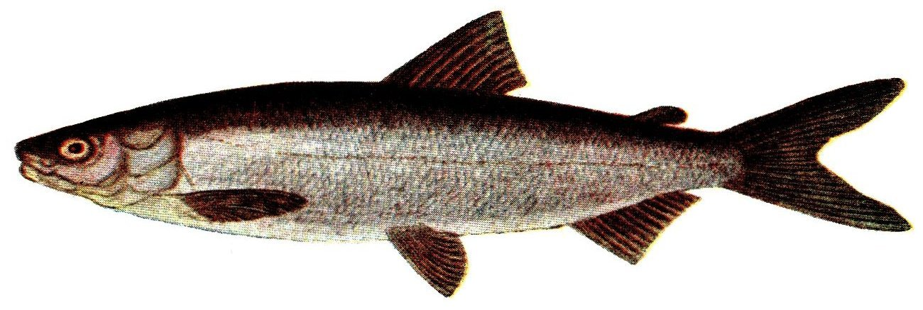 Coregonus maraena